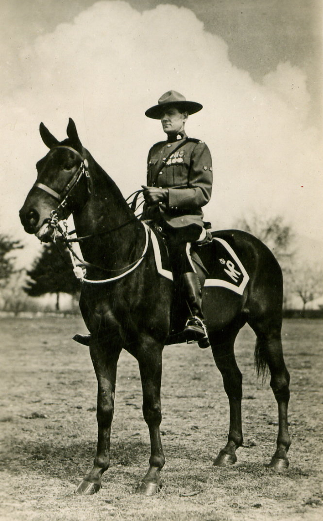 Postcard of Royal Canadian Mounted Police officer.